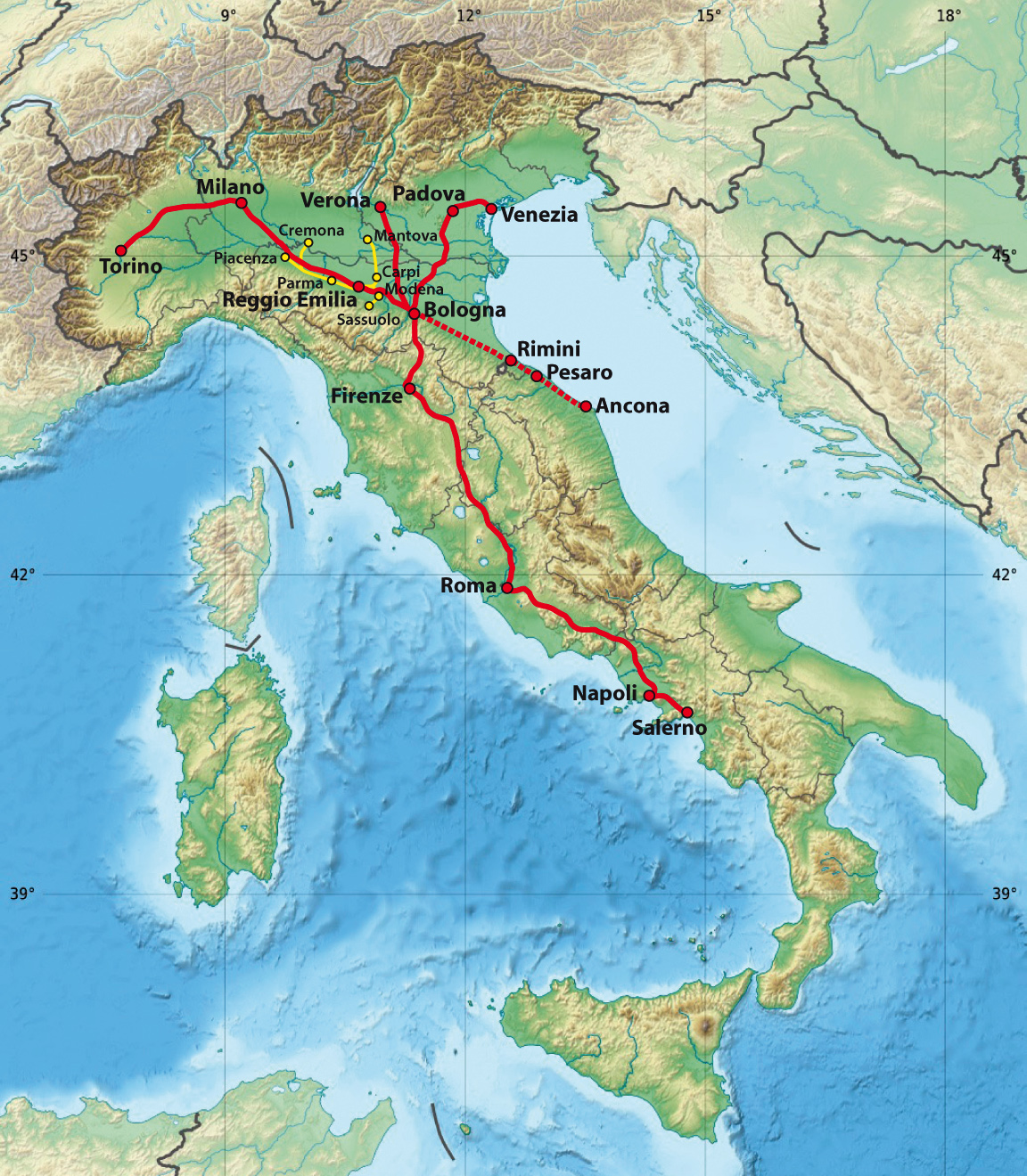 Routes of Nuovo Trasporto Viaggiatori; red: trains, red dotted: in summer only, yellow: buses